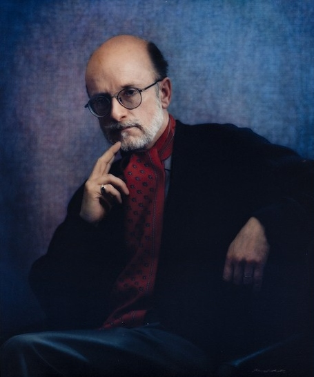 Photograph of the Finnish journalist Pekka Holopainen (1935–2015).